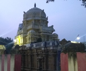 Entrance, Agasthisvarar temple, Natham, Koranattukaruppur, near Kumbakonam, Thanjavur district, Tamil Nadu India